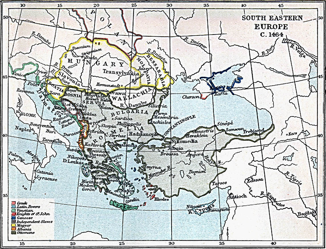 Map of south-eastern Europe in 1464 AD.